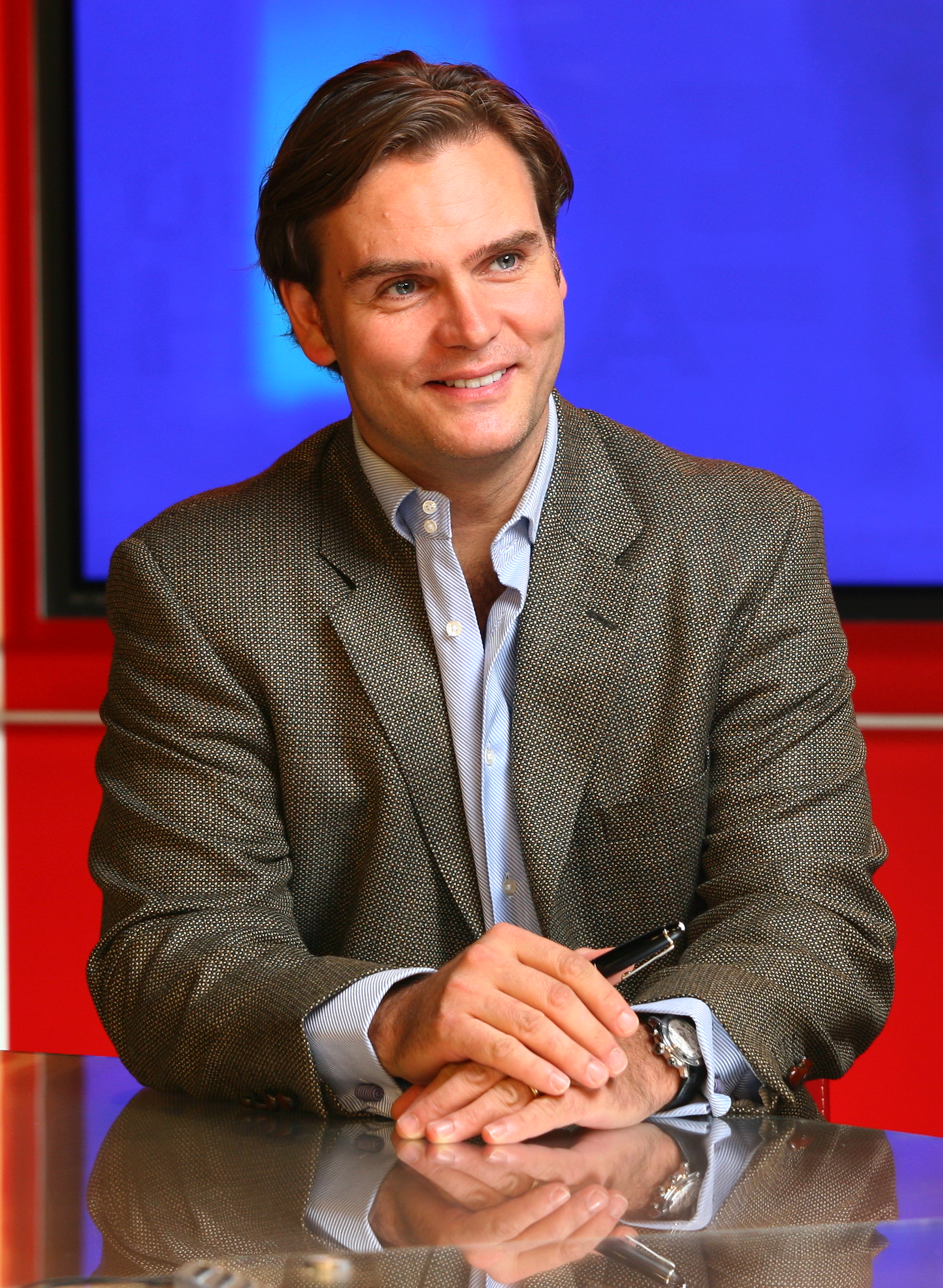 In Studios of TVN